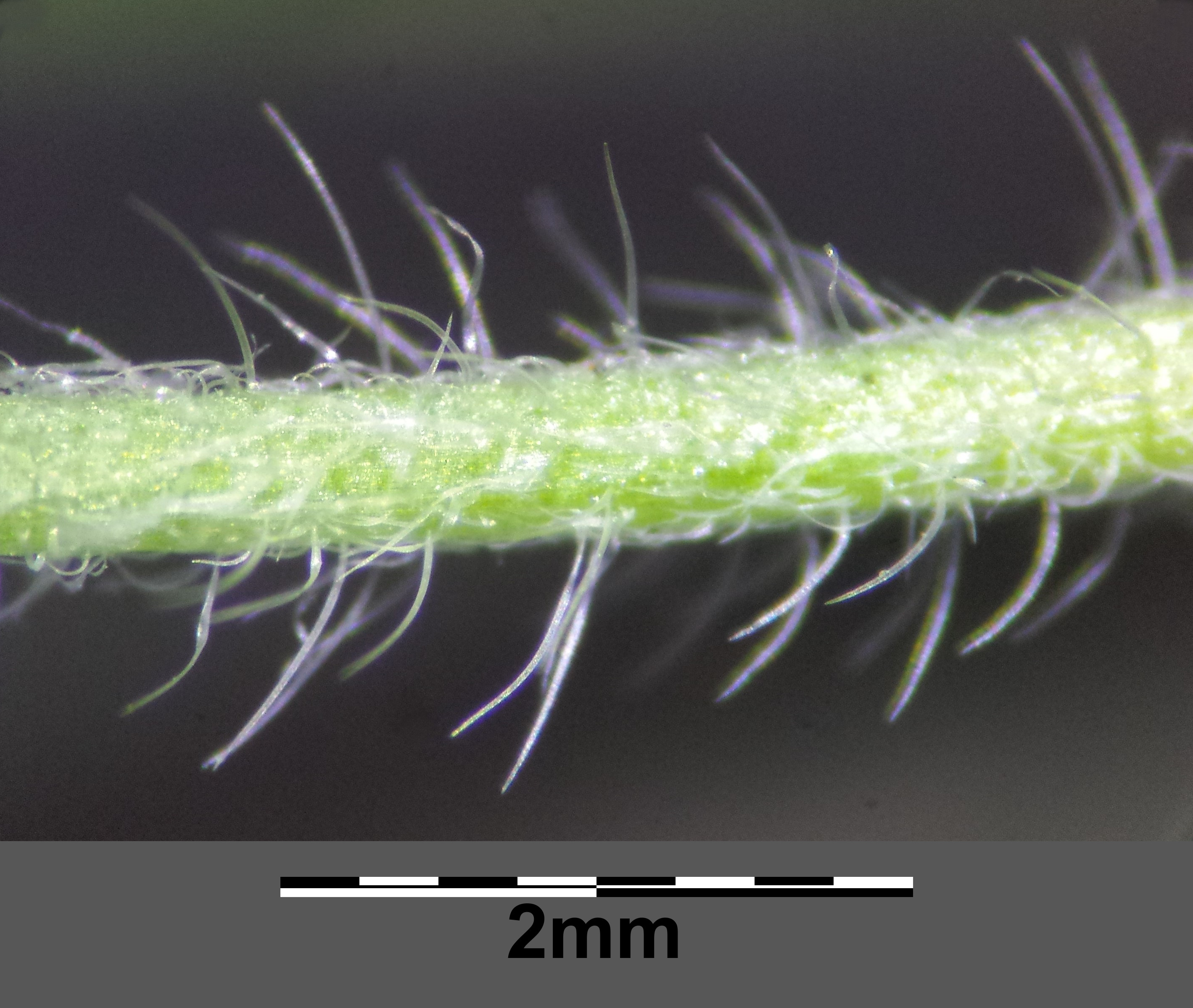 Pedicel with deflexed hairs (base of pedicel on the left) Taxonym: Geranium sibiricum ss Fischer et al. EfÖLS 2008 ISBN 978-3-85474-187-9 Location: Schwarzlackenau, Vienna-Floridsdorf - ca. 160 m a.s.l. Habitat: wayside / border of a shrubbery